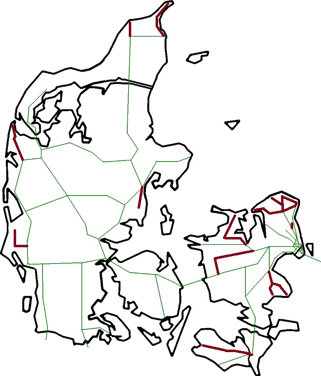 Map of railways in Denmark with private railways in brown.